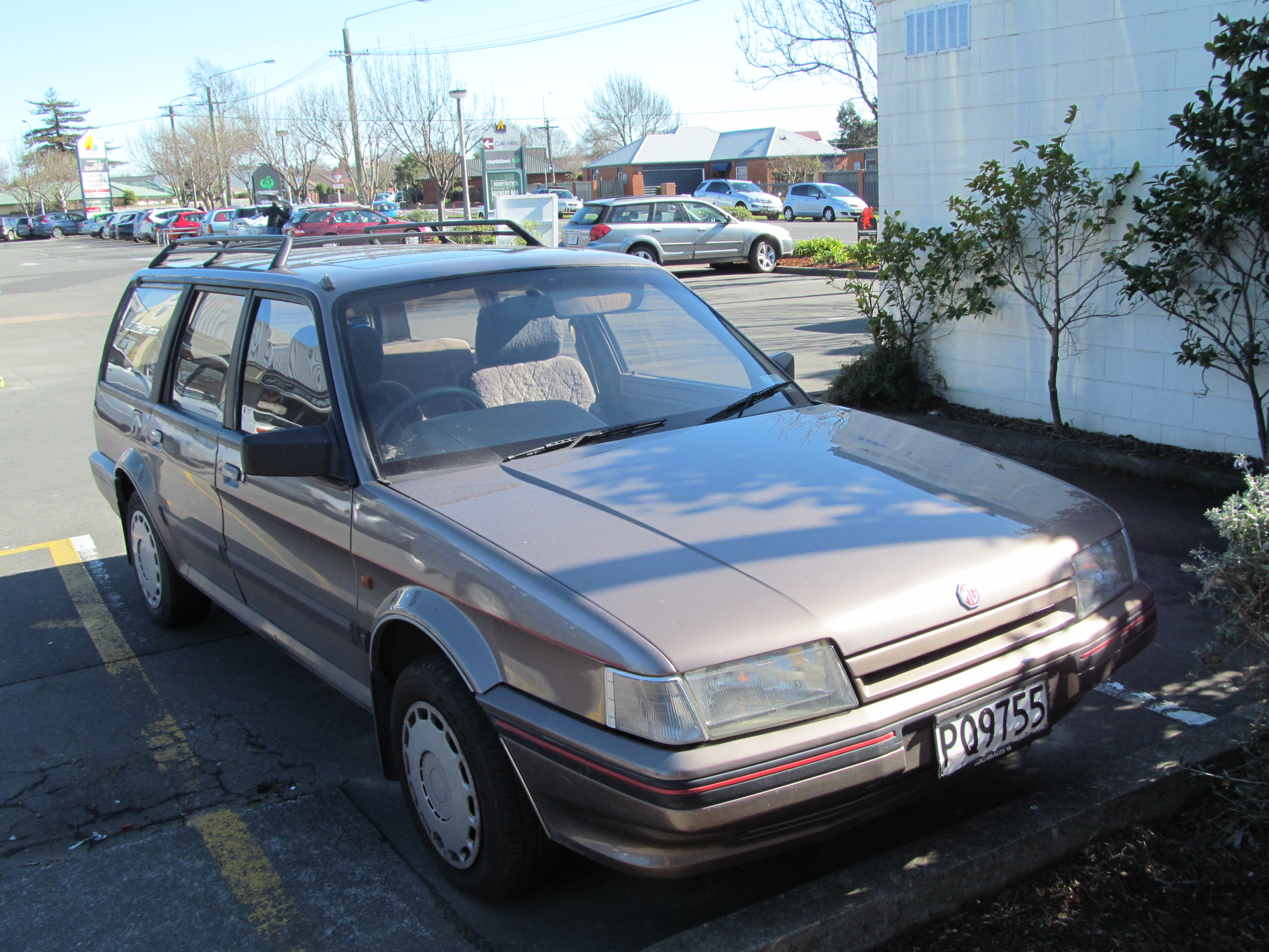 Finally, another Montego! I have being trying to catch this one for several weeks now, and I eventually caught up with it on Sunday morning in the car park of my local shopping centre. These are insanely rare here now.